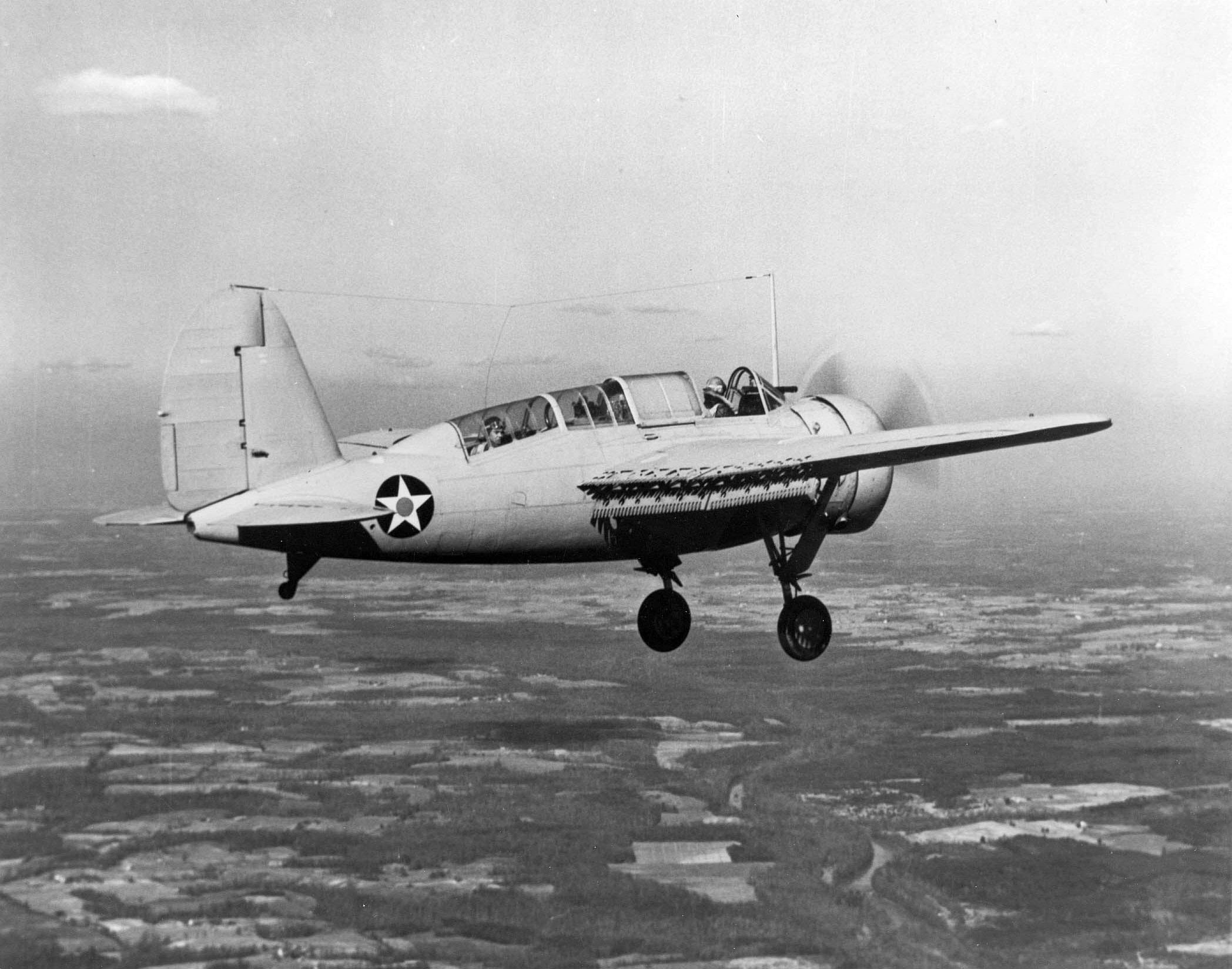 A U.S. Navy Naval Aircraft Factory SBN-1 of torpedo squadron VT-8 in flight, 1941/42. The aircraft served as a trainer for pilots and aircrewmen of the squadron, which was decimated during the Battle of Midway in June 1942 while flying Douglas TBD-1 Devastators off USS Hornet (CV-8).